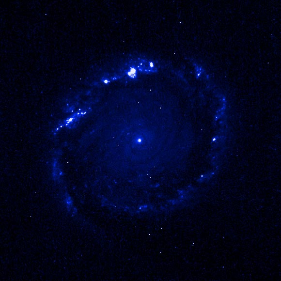 ABOUT THIS IMAGE: The blue (3327 Å) denotes the near-ultraviolet region of the spectrum. Image taken by HST's Wide Field and Planetary Camera 2. Object Name: NGC 1512 Image Type: Astronomical